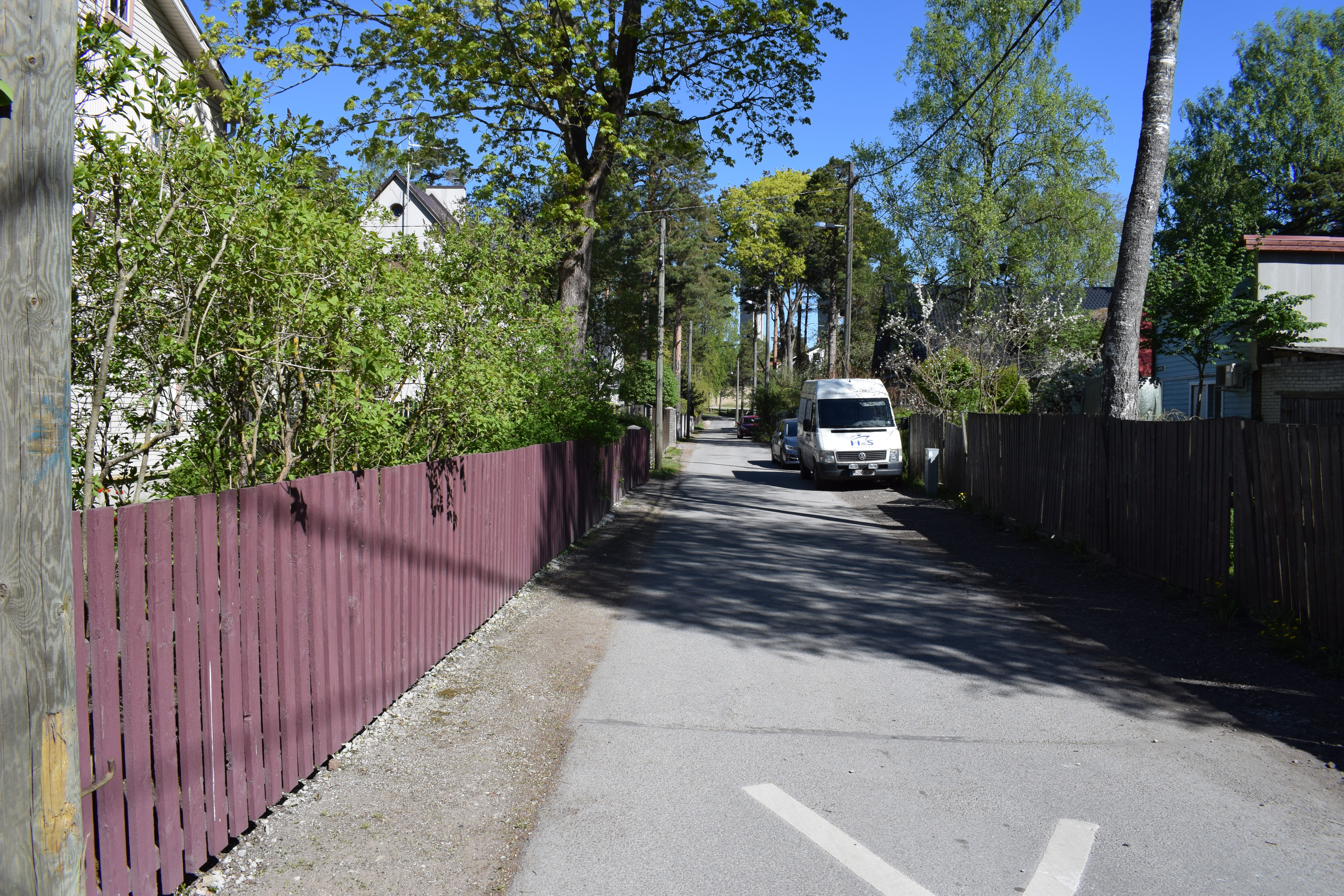 Vahtra street